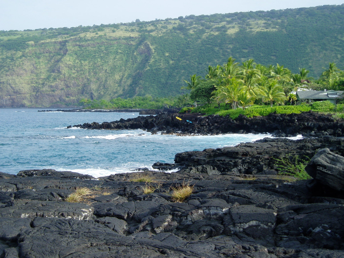 Kealakekua Bay in Hawaii (2007).